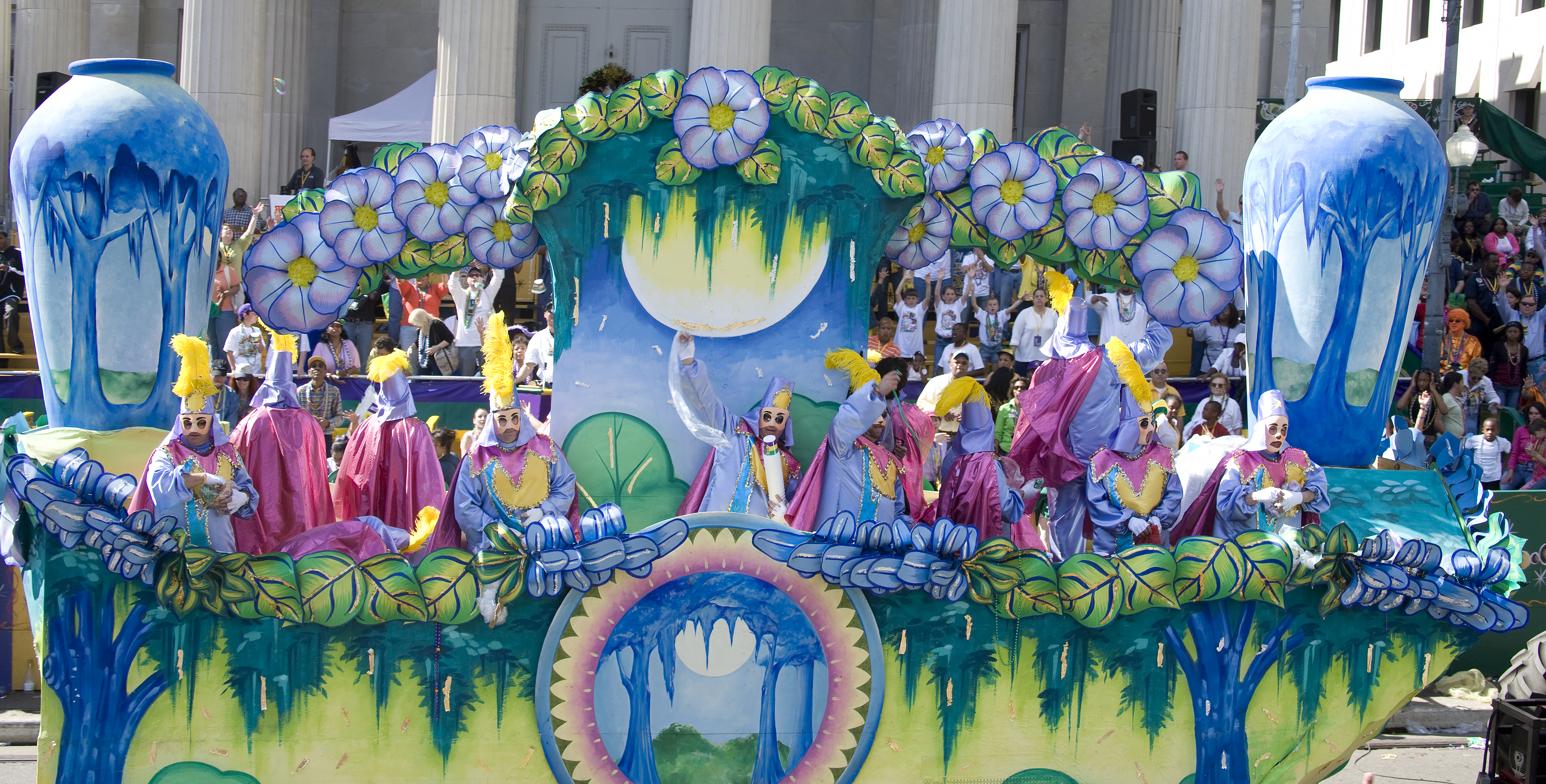 "Mardi Gras Parade, 2006, New Orleans, Louisiana" Shows float in the Rex parade on St. Charles Avenue in front of Gallier Hall.